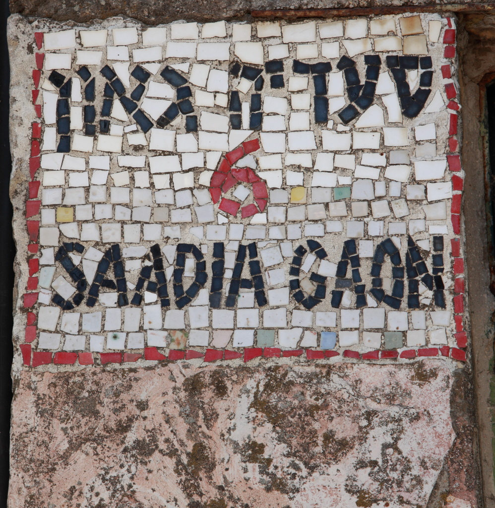 Jerusalem, 6 Rabi Se'adya ga'on street (Saadia Gaon סעדיה גאון) - Mosaic: Hebrew / English address sign Mosaic in Jerusalem